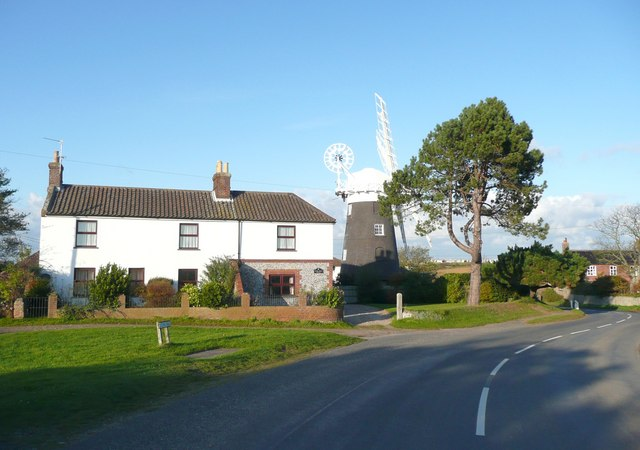 Stow windmill, Paston, Norfolk with the B1159 in the foreground